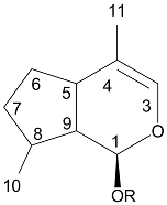 iridoid ring numbering